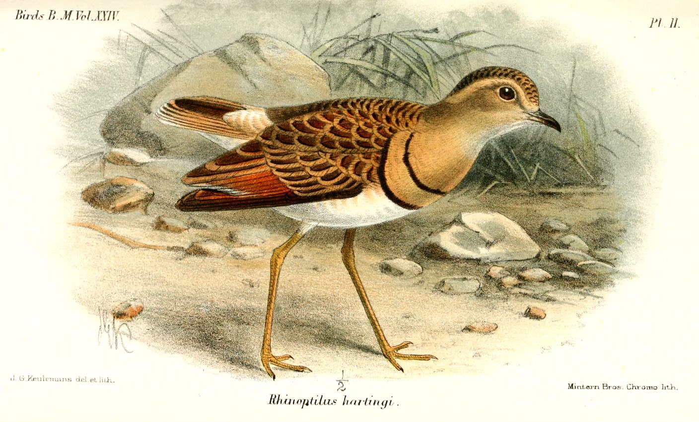 Rhinoptilus hartingi = Rhinoptilus africanus, Double-banded Courser